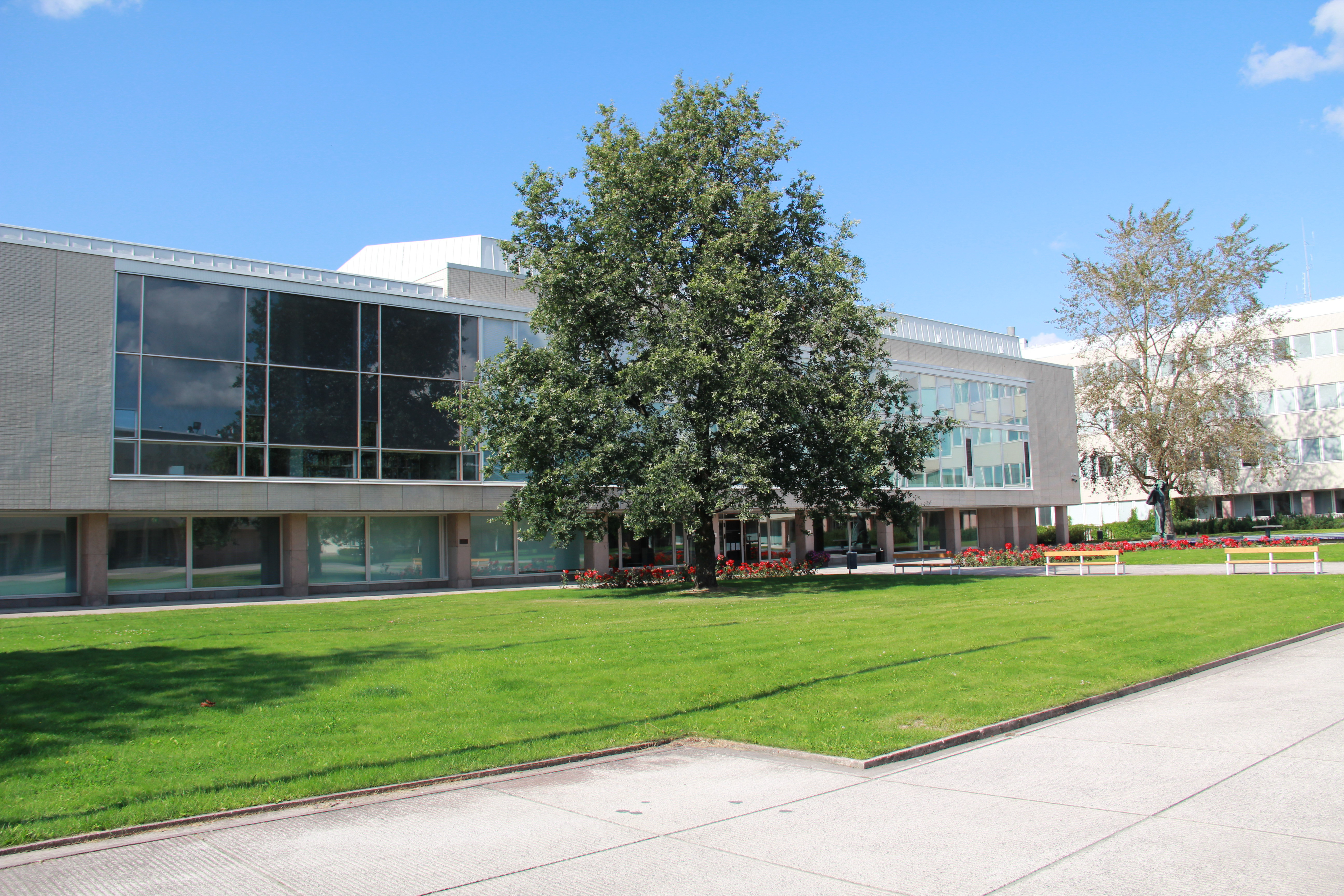 University of Turku, Library, Main library, Turku, Finland. Architect Aarne Ervi. In front of the library The oak of science and sculpture Genius ohjaa nuoruutta by Wäinö Aaltonen (right).